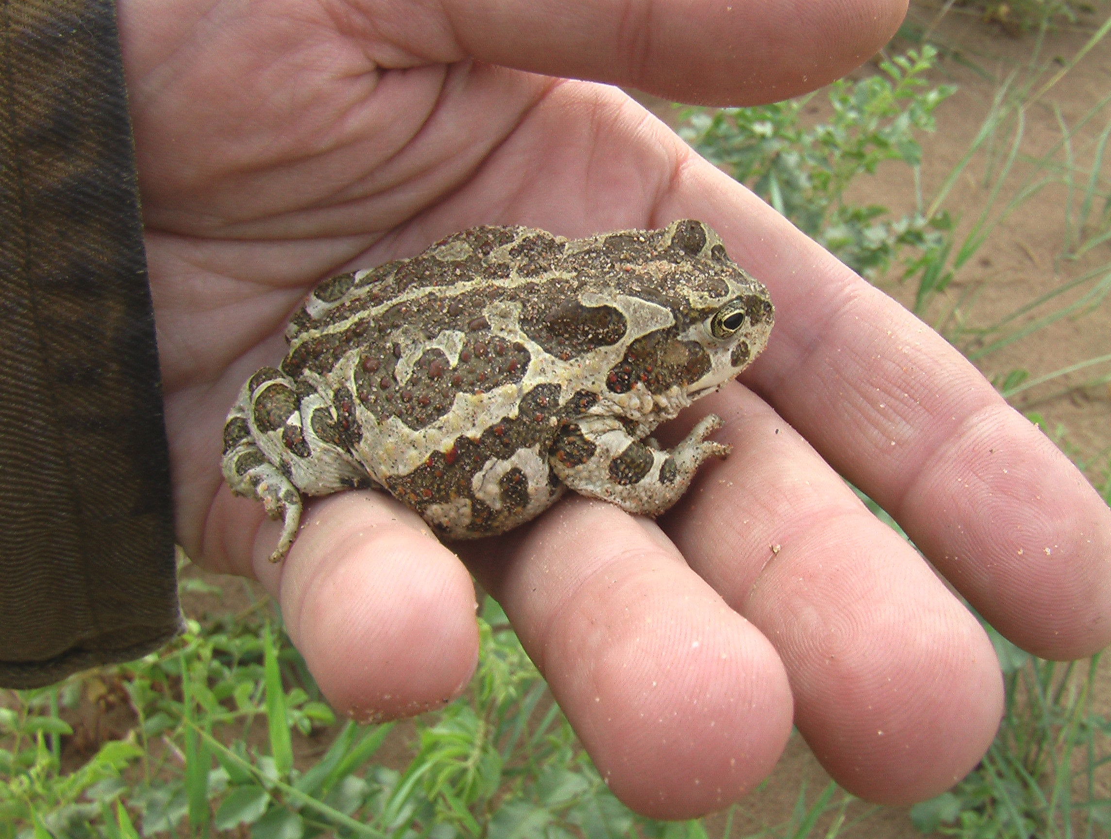 Bufo raddei Strauch, 1876 North coast of Orog Nuur lake, Bogd sum, Bayankhongor province, South Mongolia